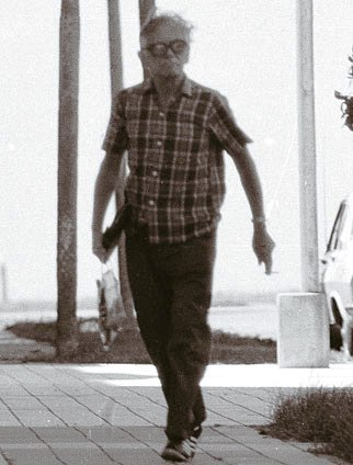 Walter Kutschmann in Miramar, Argentina, where he lived under a fake identity, 4 January 1975